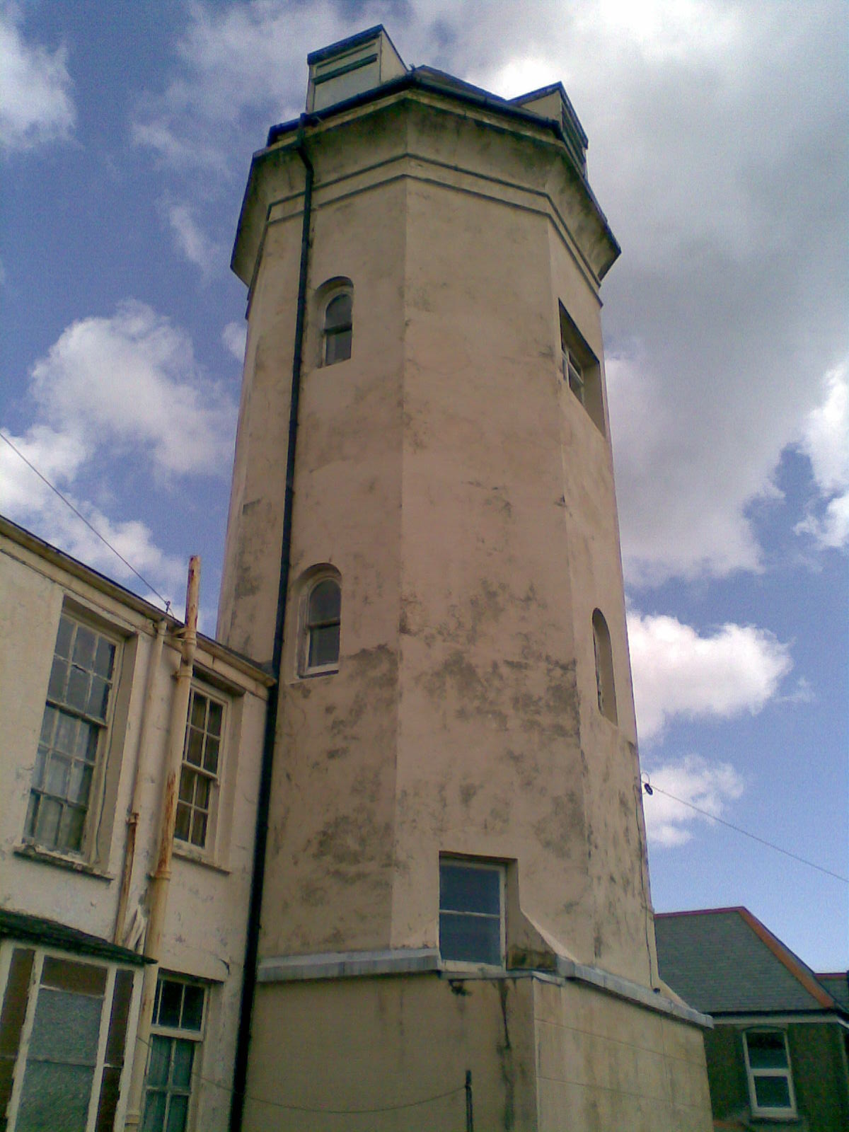 Falmouth Meteorological Observatory: Notice says-"This tower was built for meteorological observations in 1868 and was used until 1885, when the new observatory was erected further west in Falmouth. The first superintendent was Mr Lovell Squire, whose successor in 1882 was Mr Edward Kitto." The tower is at a high point in Falmouth and can be seen on the skyline from the Observation Tower at the National Maritime Museum Cornwall. Note: Currently under restoration (2010).